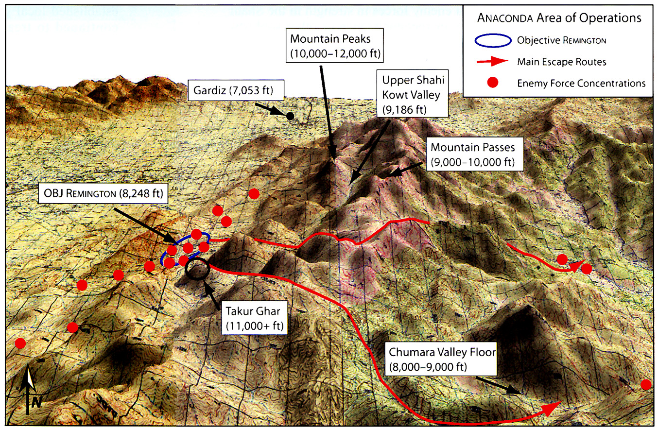 Strategic map for U.S. Army operation Anaconda. The area outlined in blue is the Shahi Kowt Valley, about one hundred miles south of Kabul, Afghanistan, near the Pakistani border.